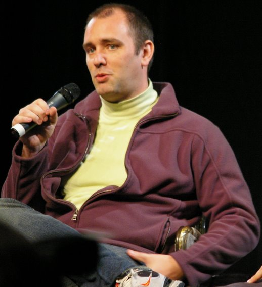 Trey Parker at The Amazing Meeting on January 20, 2007